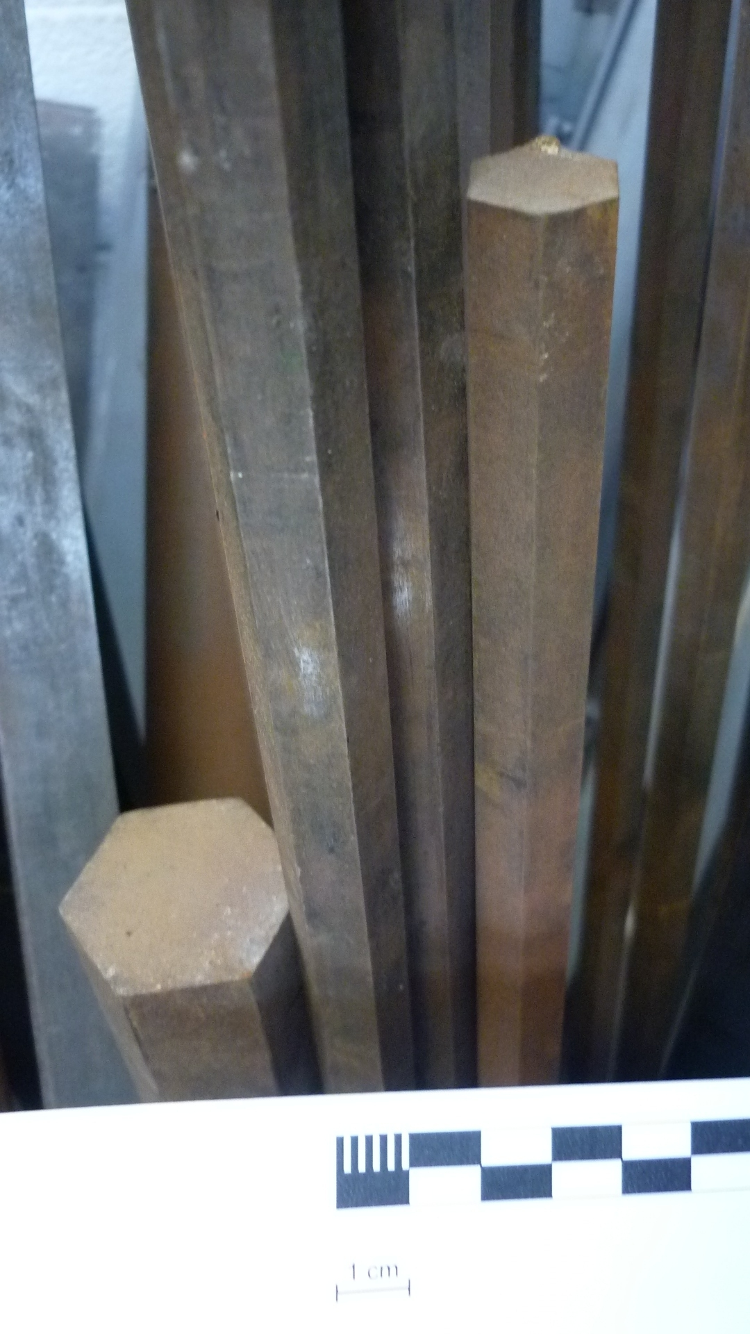 Hexagonal bars in a machining workshop.